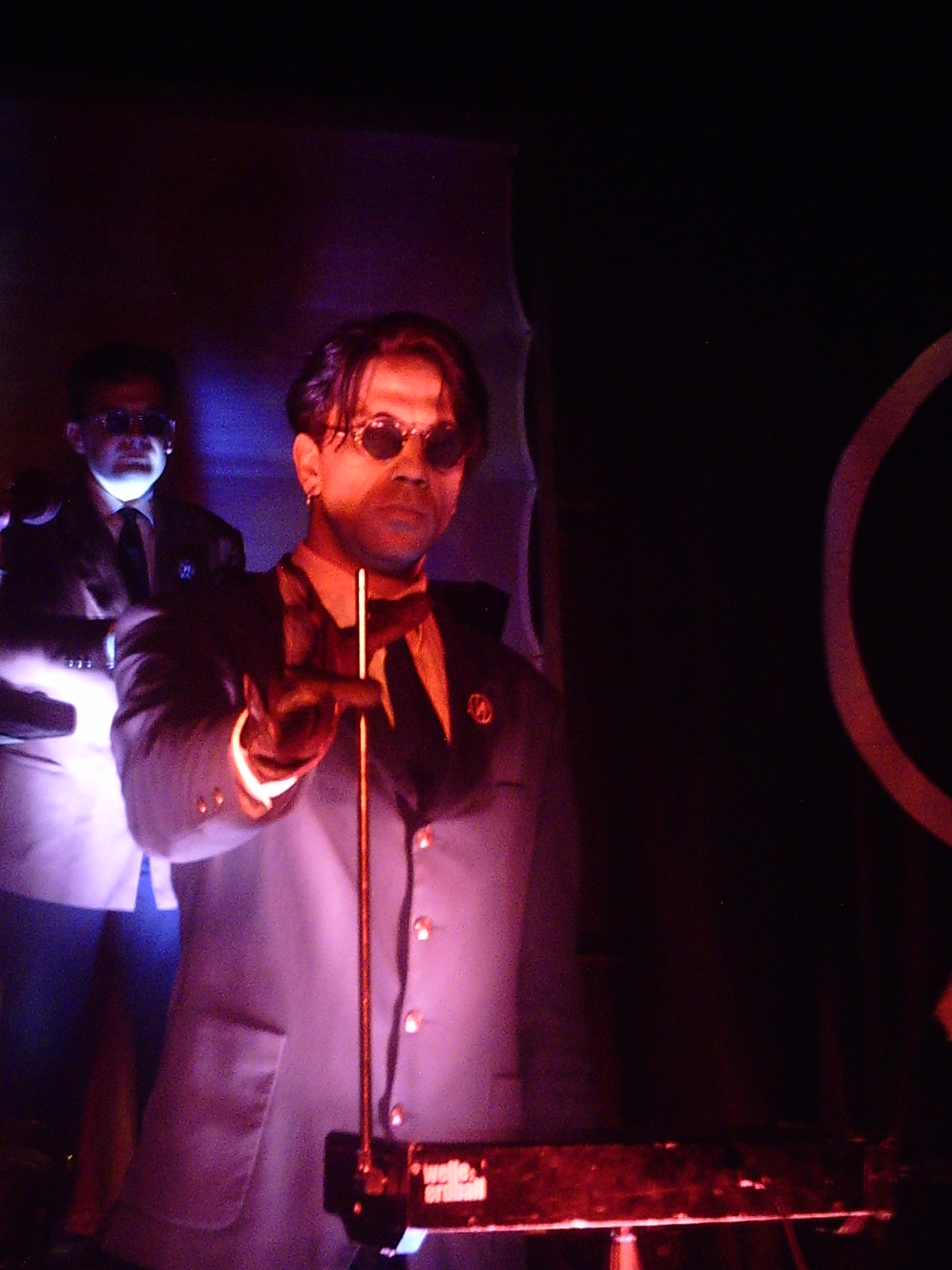 Bandphoto